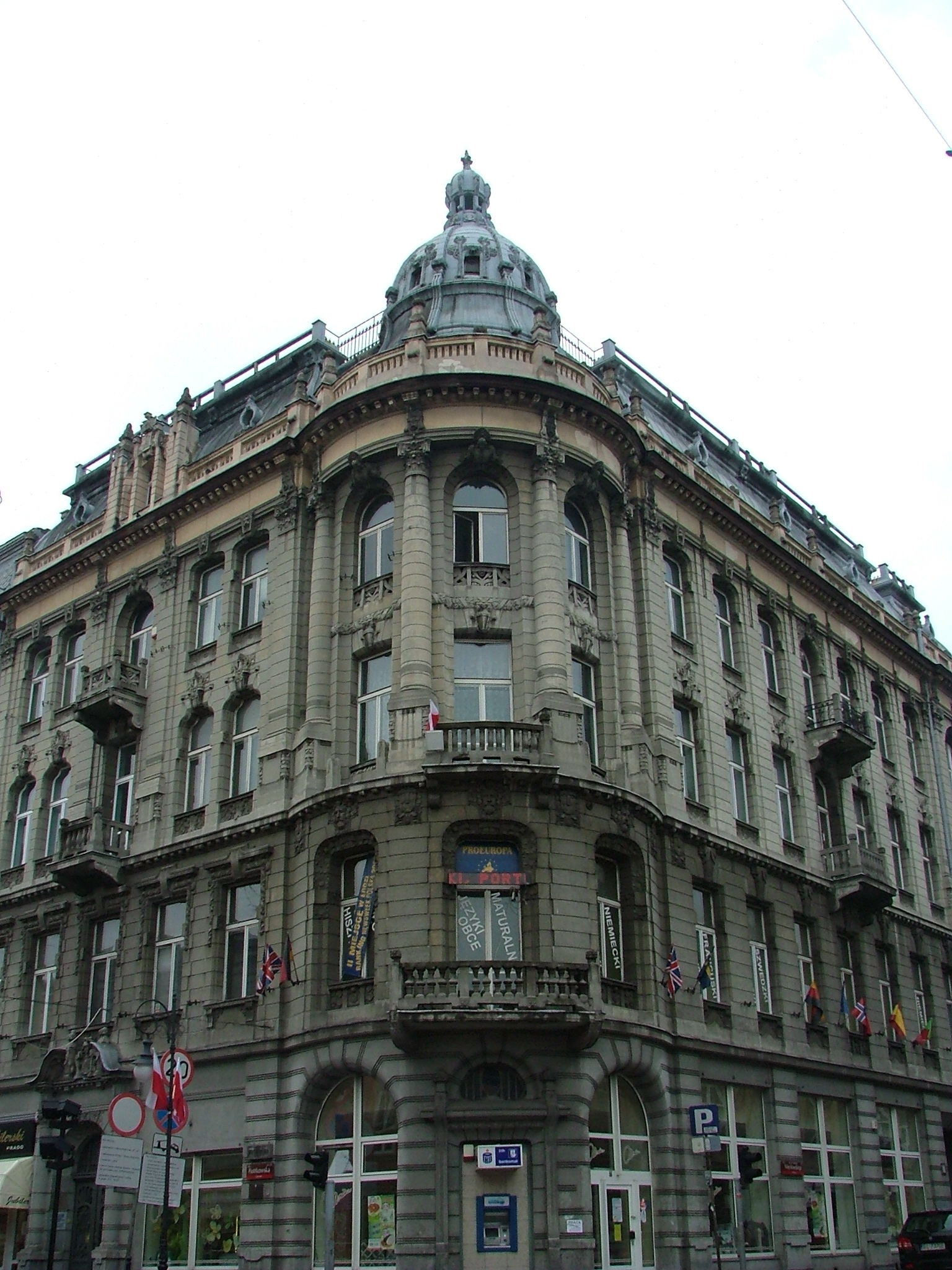 This picture was taken during the photographic wikiworkshop organized by the Association of Wikimedia Poland. All pictures of the workshop you can see in the category wikiwarsztaty 2010. Dom bankowy Wilhelma Landaua przy ulicy Piotrkowskiej.